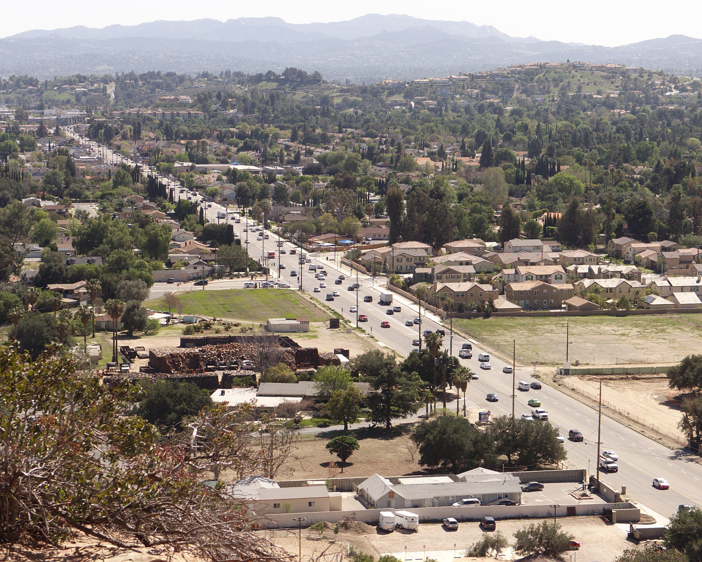 The northern end of California State Route 27, locally known as Topanga Canyon Boulevard, looking south towards the Santa Monica Mountains across the Chatsworth neighborhood of Los Angeles in the western San Fernando Valley. View is from Stoney Point, near the intersection with State Route 118.